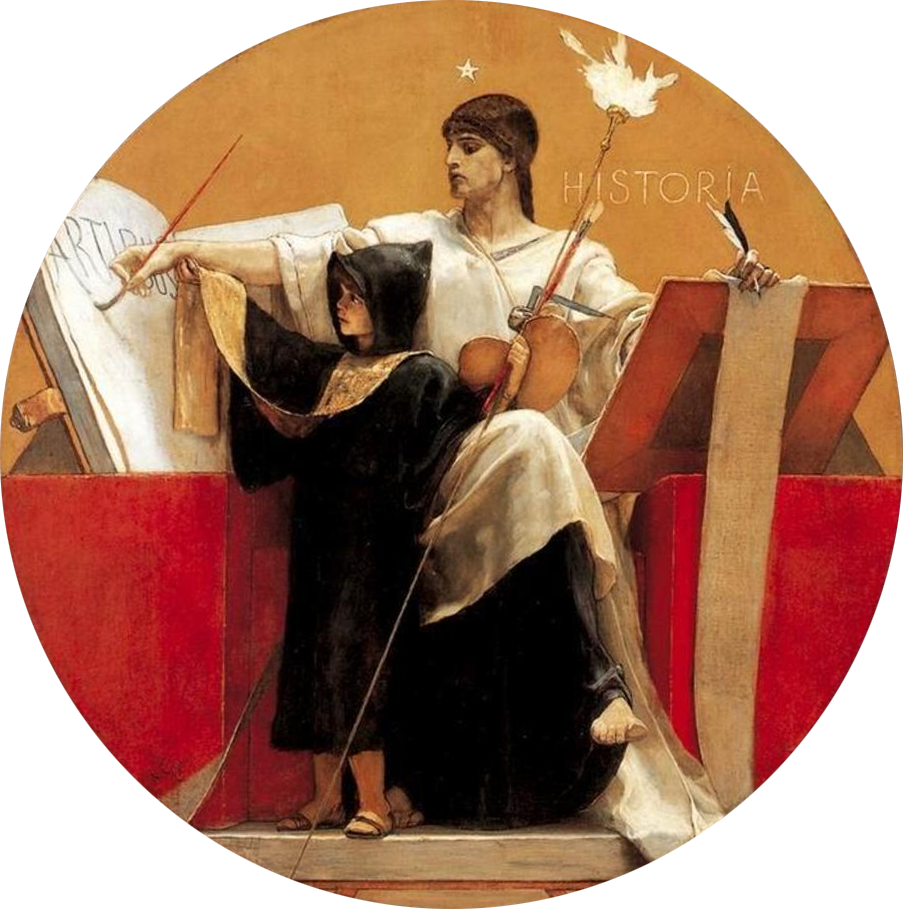 Historia